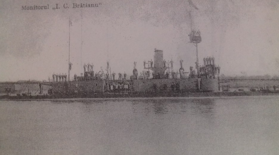 The warship depicted in the picture is the Romanian river monitor Brătianu